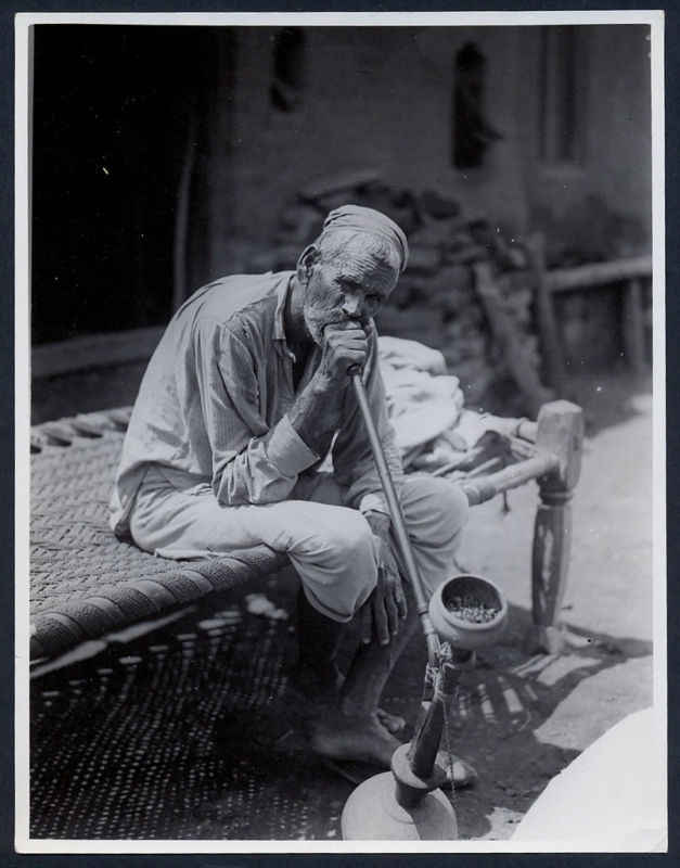 Man smoking from a Hooka, India.